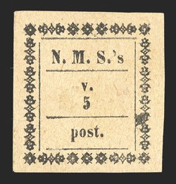 Stamp of the Norwegian Missionary mail in Madagascar